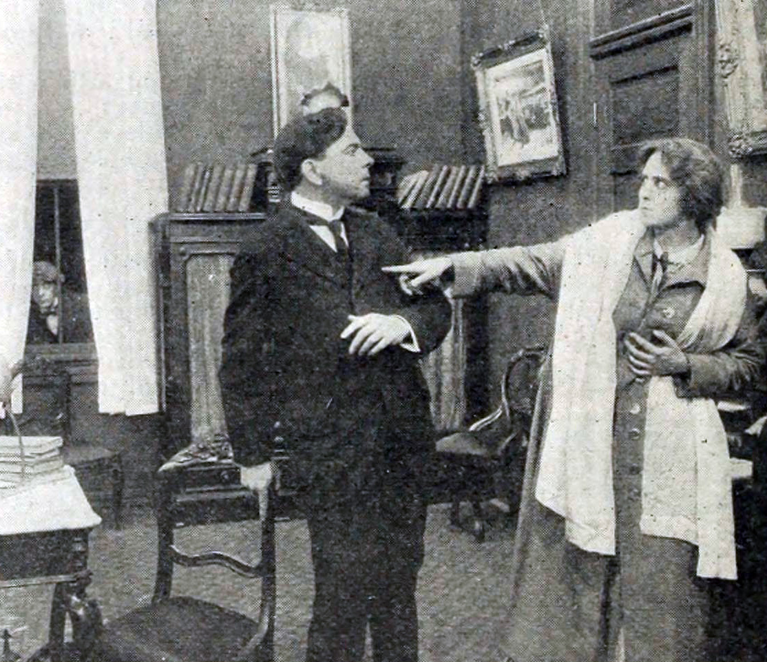 Illustration of a review in The Moving Picture World for The Hidden Face (1916).